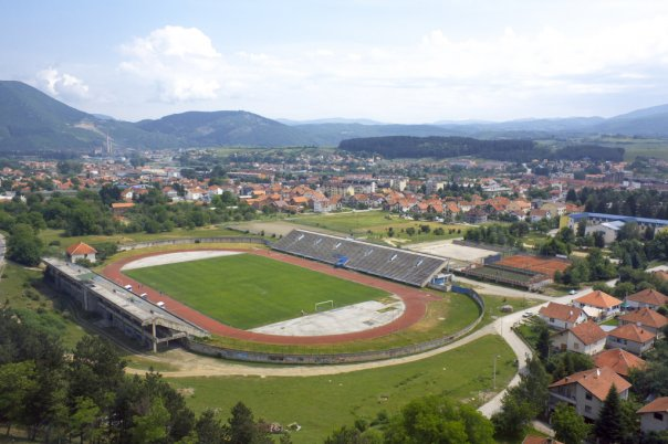 City Stadium Berane